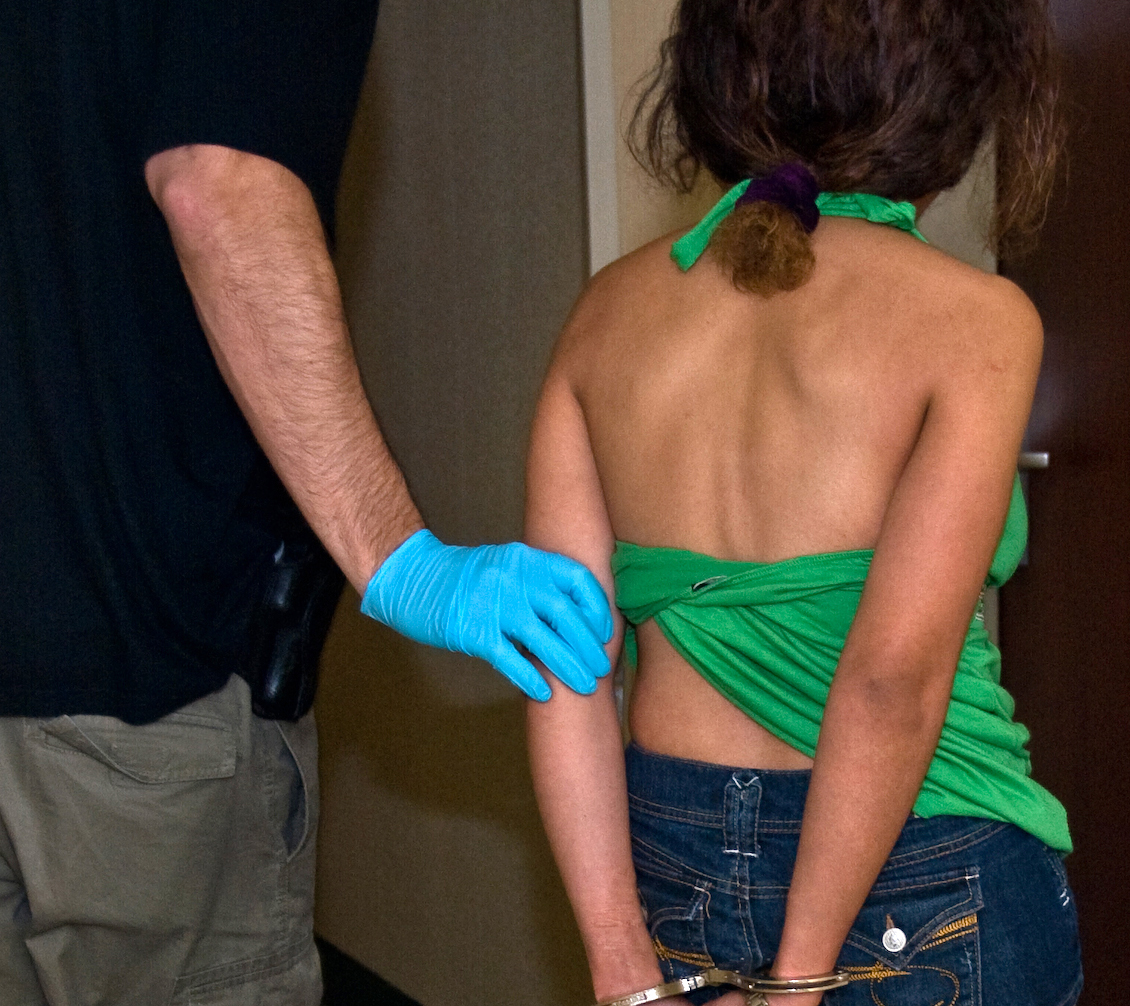 Photograph of an FBI agent leading away an adult suspect arrested in the "Operation Cross Country II".